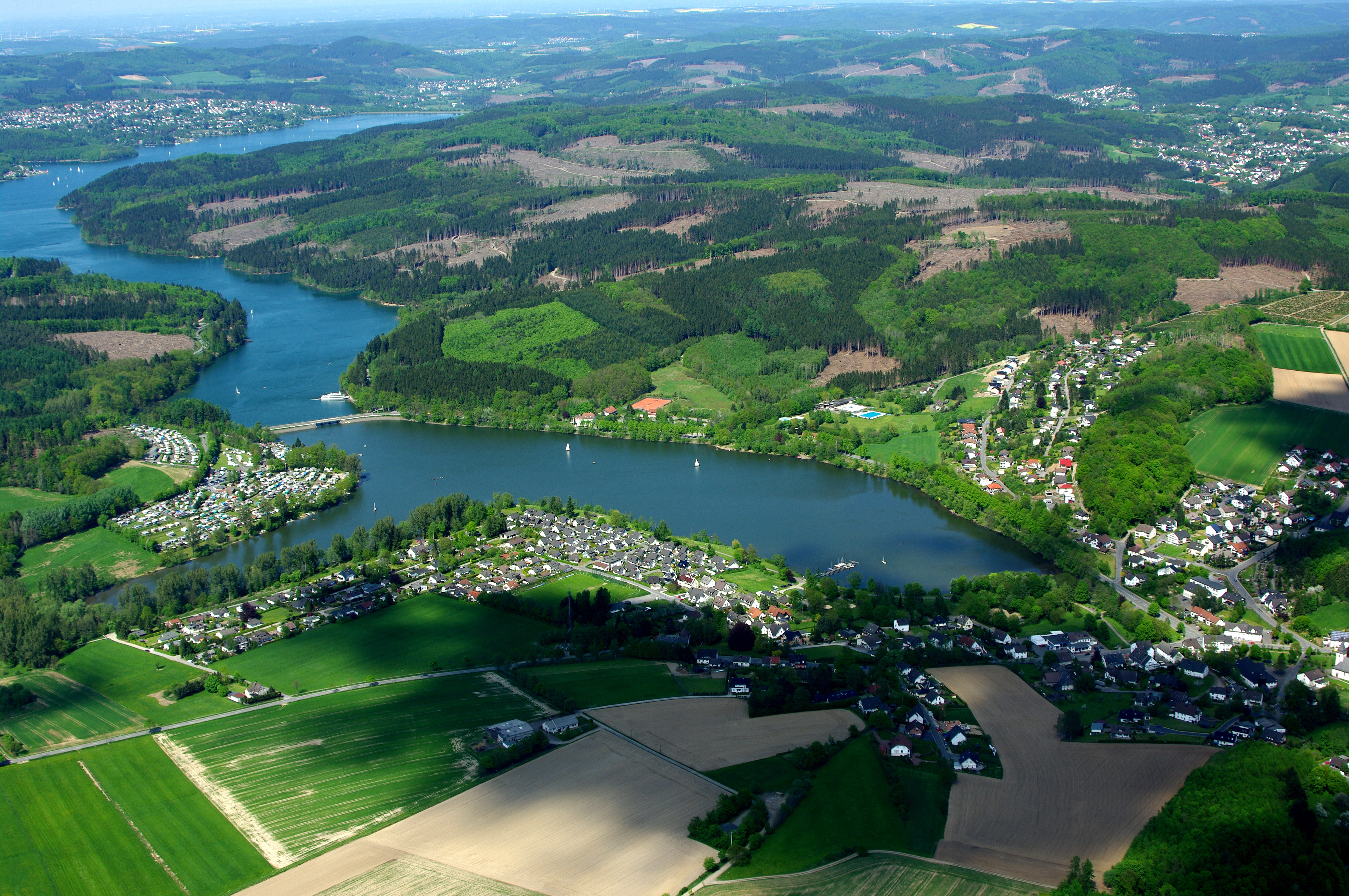 Sundern-Amecke and Sorpesee, Germany